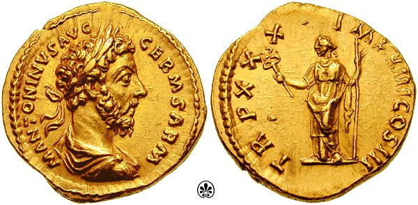 Marcus Aurelius. 161-180 AD. AV Aureus (7.26 gm). Struck 176 AD. M ANTONINVS AVG GERM SARM, laureate and draped bust right, seen from behind TR P XXX • IMP VIII COS III, Felicitas standing left, holding caduceus and sceptre. RIC III 358 var. (no drapery); Szaivert 323-4 var. (same); BMCRE 674 var. (cuirass); Cohen -. EF.